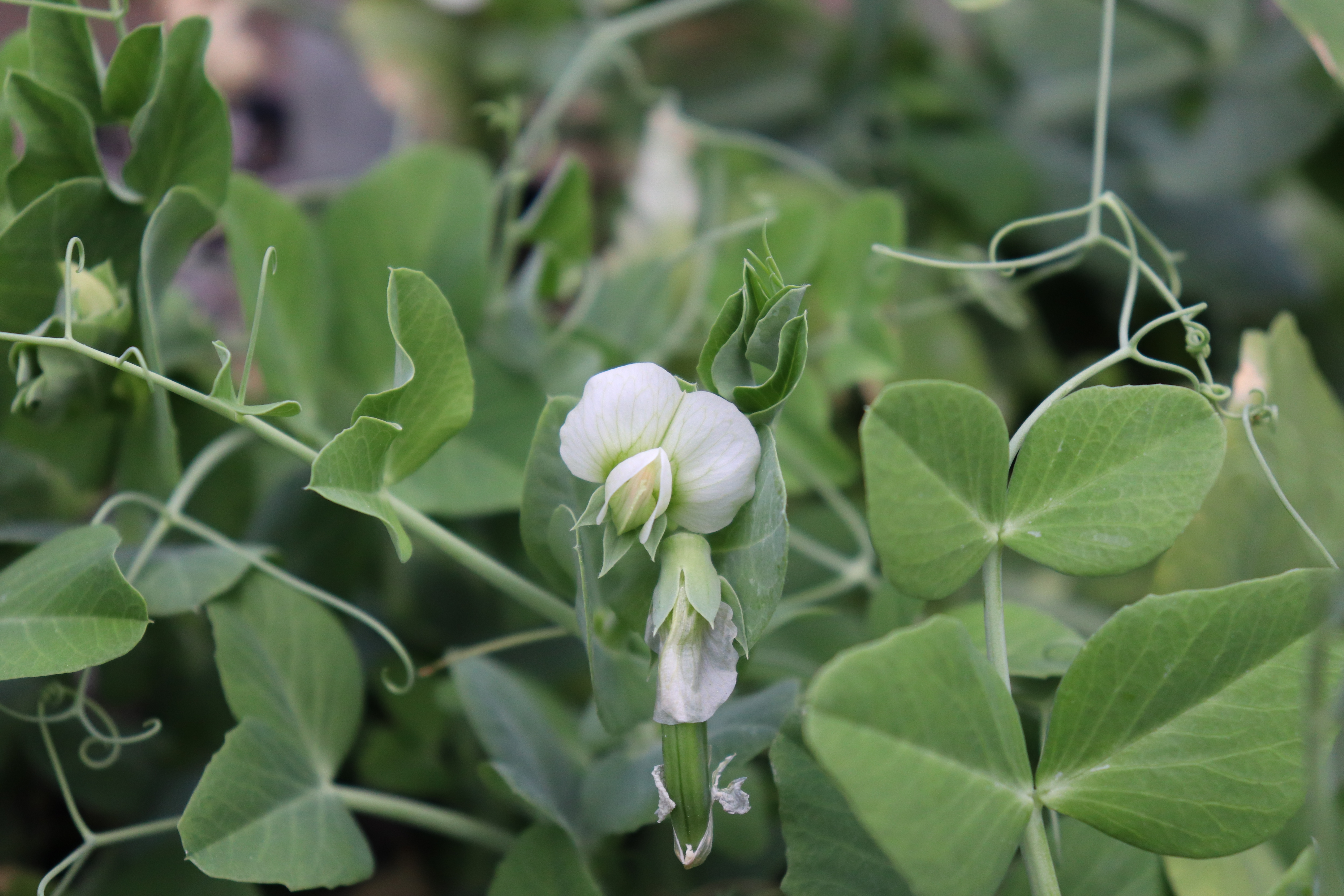 Dwarf snap peas on May 6, 2018 in Santa Rosa, California.